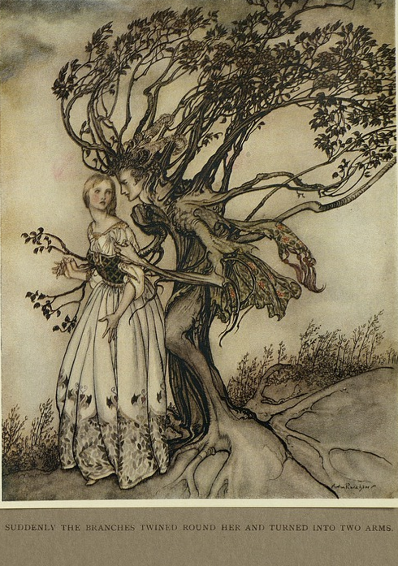 Little brother & little sister and other tales by the Brothers Grimm, illustrated by Arthur Rackham, 1917.